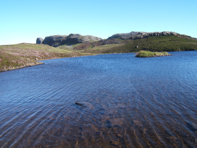 Loch nam Ban Mora Looking south west towards An Sgurr